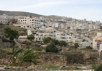 This is a residential neighborhood in Nablus. In the foreground, are ruins that seem to date from classical antiquity. Note the ground around the ruins is lower then the level of the modern street.